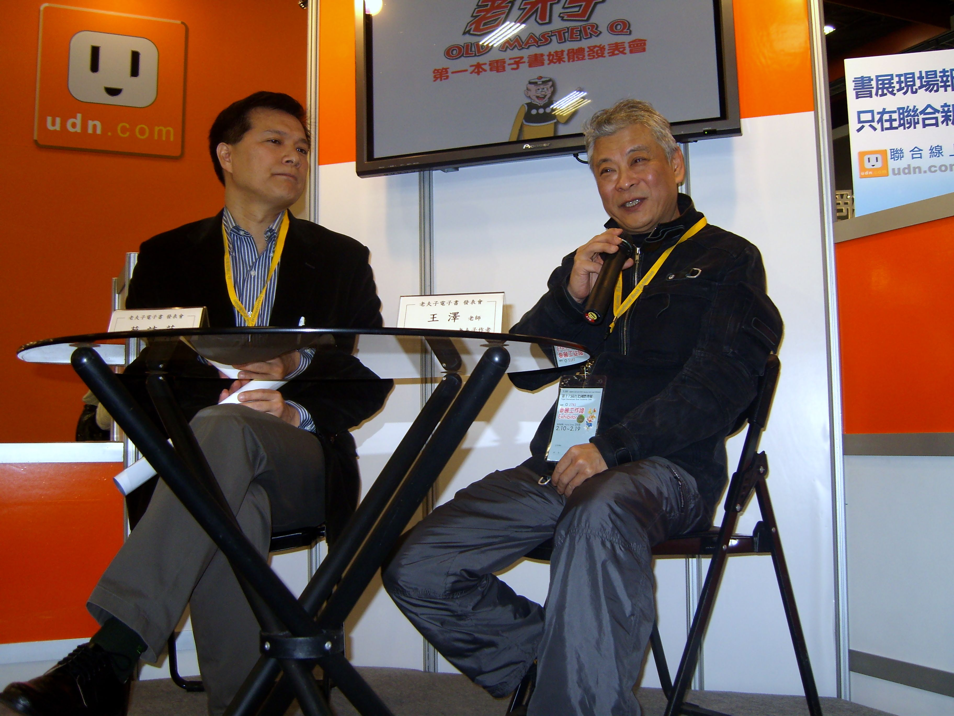 2008 Taipei International Book Exhibition - UDN Online: Release Event of "Old Master Q" E-book Version.